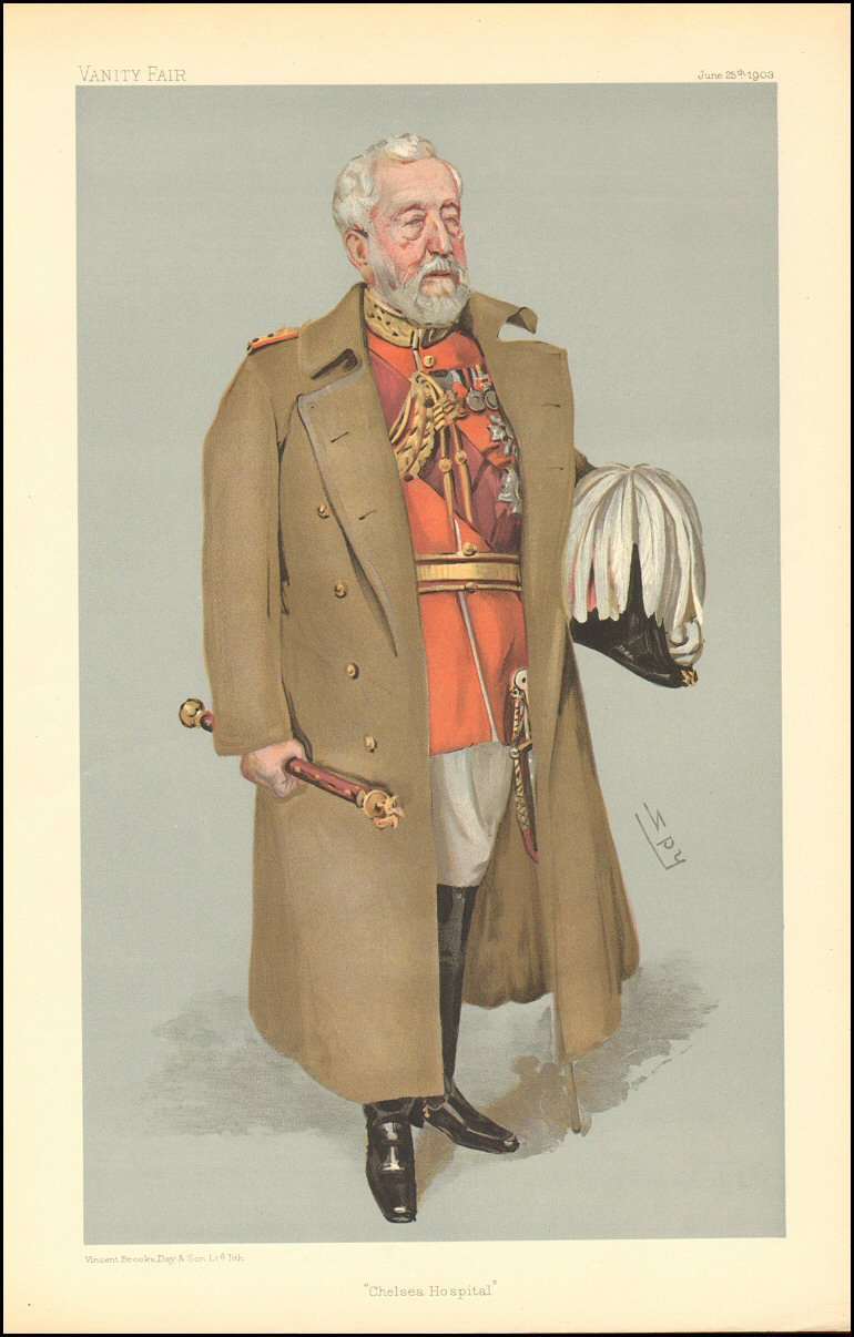 Men of the Day No.0884: Caricature of FM Sir HW Norman. Caption reads: "Chelsea Hospital"